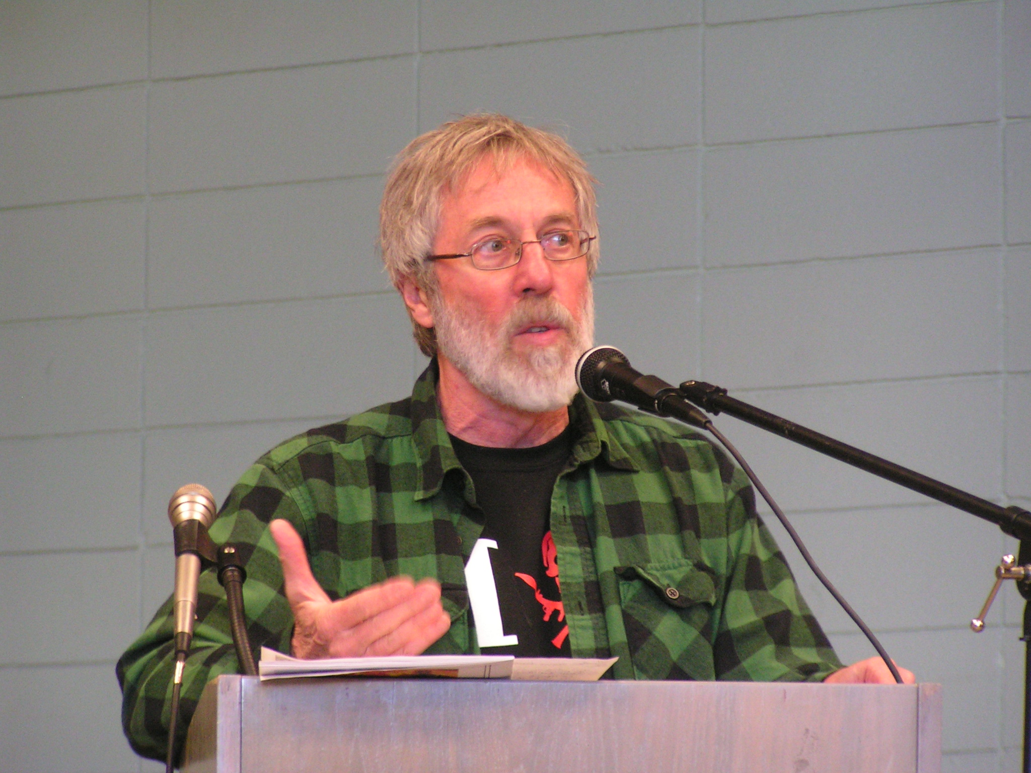 John Zerzan discusses The Coming Insurrection during a lecture at the 2010 San Francisco Anarchist Bookfair